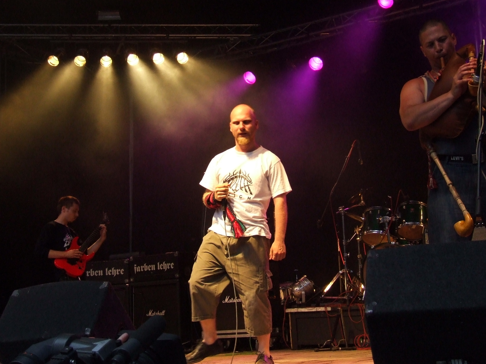 Band Znich at Basowiszcza festival 2007.